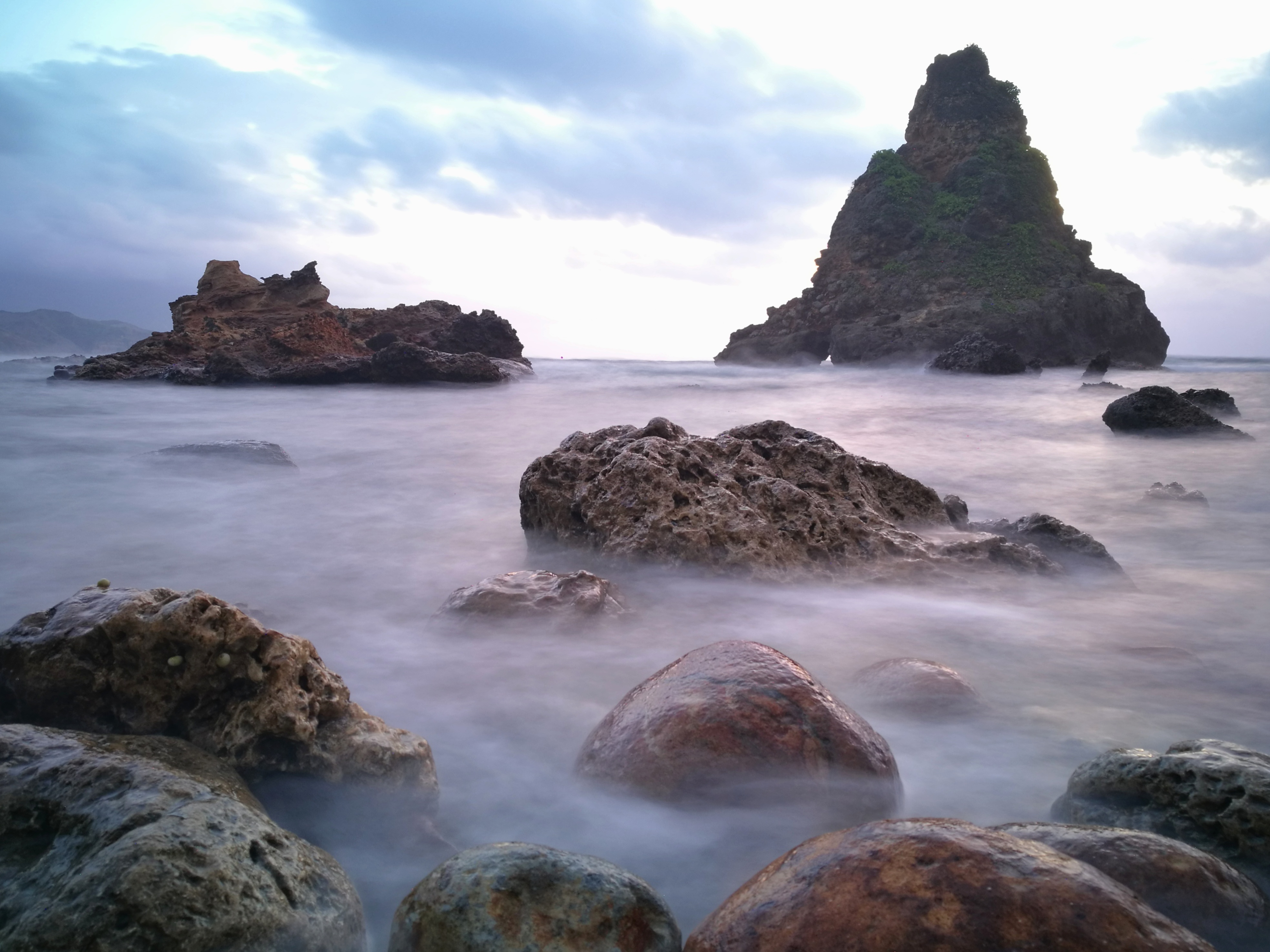 Diura Fishing Village is a tiny coastal community facing the Pacific Ocean in Barangay Uvoy, Mahatao, Batanes, the Philippines. Diura is composed of around 37 families, all of which are members of the Diura Fishermen’s Association (mataw).